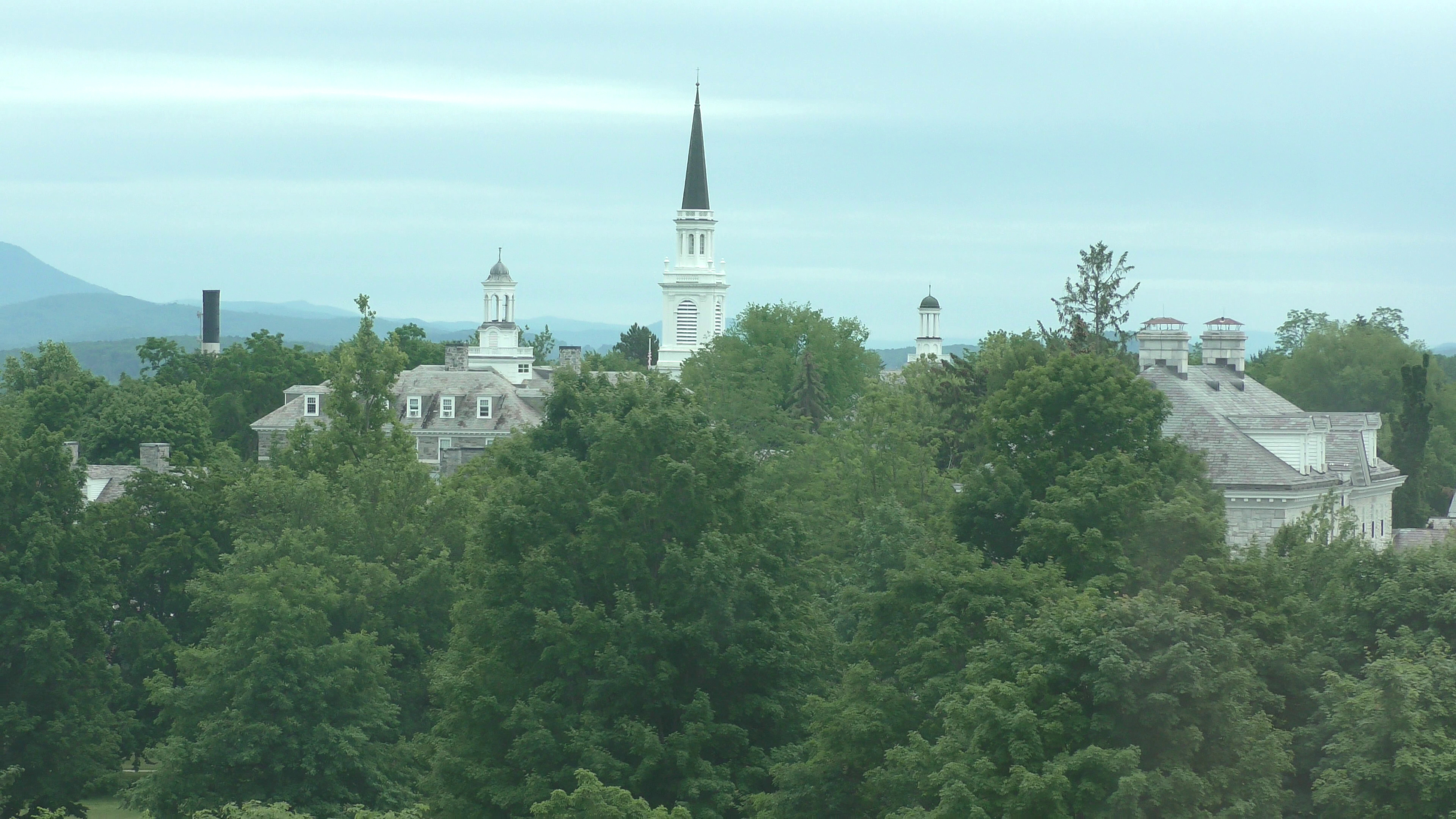 Tour of Middlebury College. Photo by Kenneth Burchfiel